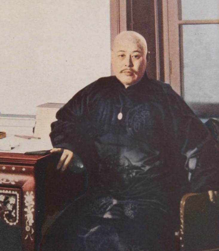 Color photo of Wu Peifu from 1939 from the World War II-era Japanese magazine "Pictorial World". The photo was taken likely a year or so before Wu's death in December 1939. The photo has been slightly edited from the original, since even though the original was a color photo, it was likely "sweetened" with color in certain areas. The "sweetening" made Wu's clothing extremely blue, more so than it likely should have been. The photo has not been digitally colorized. The photo is from a seller's page on the Chinese book auction site "Kong Fuzi", which shows pictures of each page of the magazine, including one with this photo.